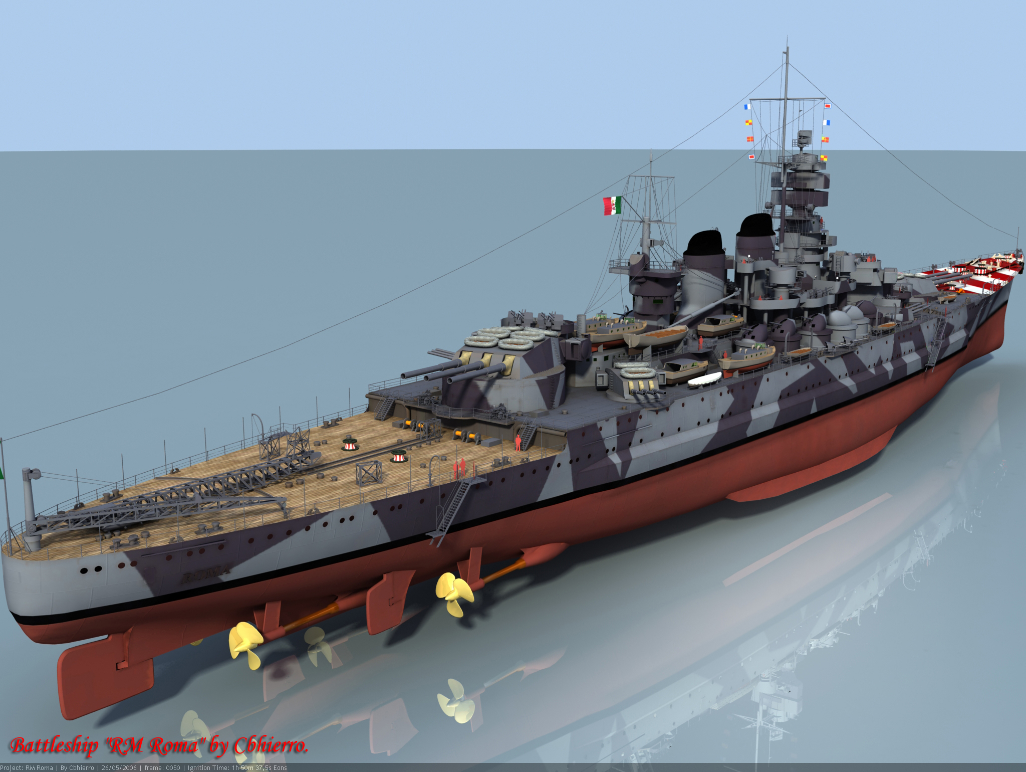 a 3D rendering of the different views of the Regia Marina Roma battleship